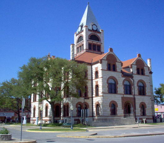 Erath County Courthouse, Stephenville, Texas